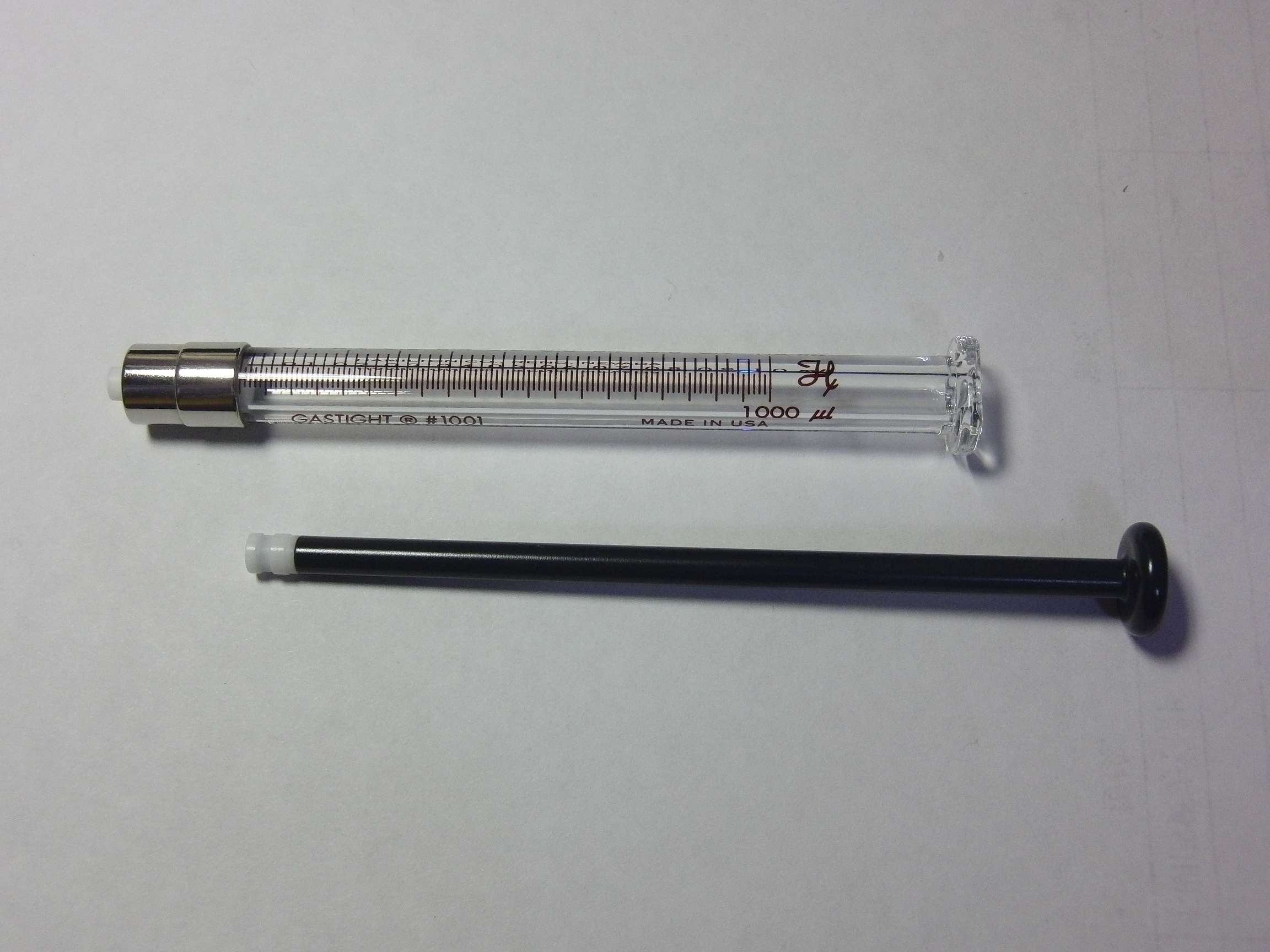 Delicate Syringe